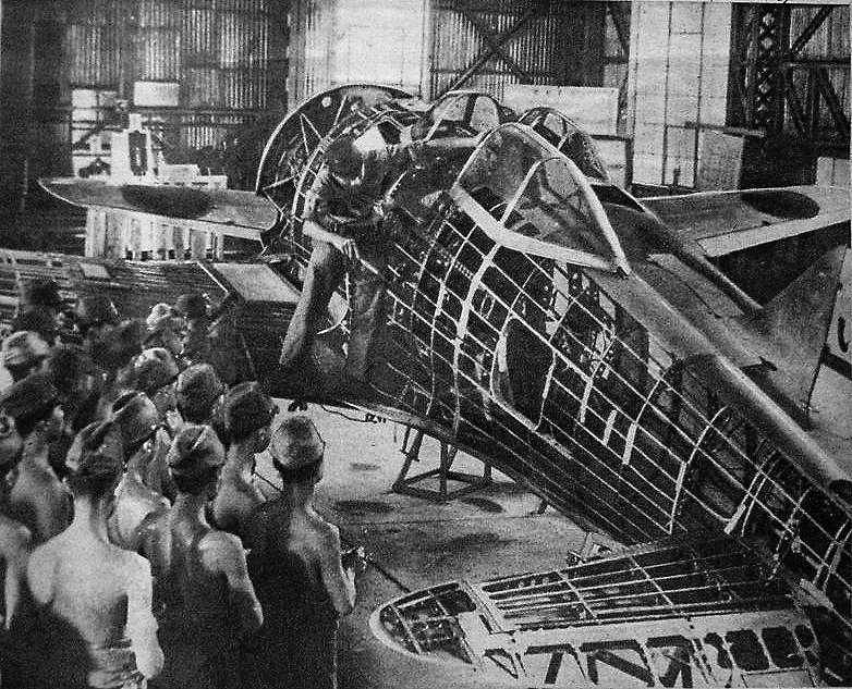 Skeleton of a Shoki at Shozawa Army Maintenance School. The plane in front should be a Shoki as well.